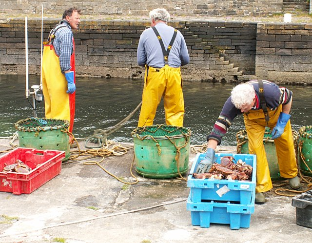 Packing the catch Built for, and extended on the back of the Herring trade today crabs seem to be the main catch landed at Lybster. Here the live crabs are being packed into boxes for export to the markets down south.